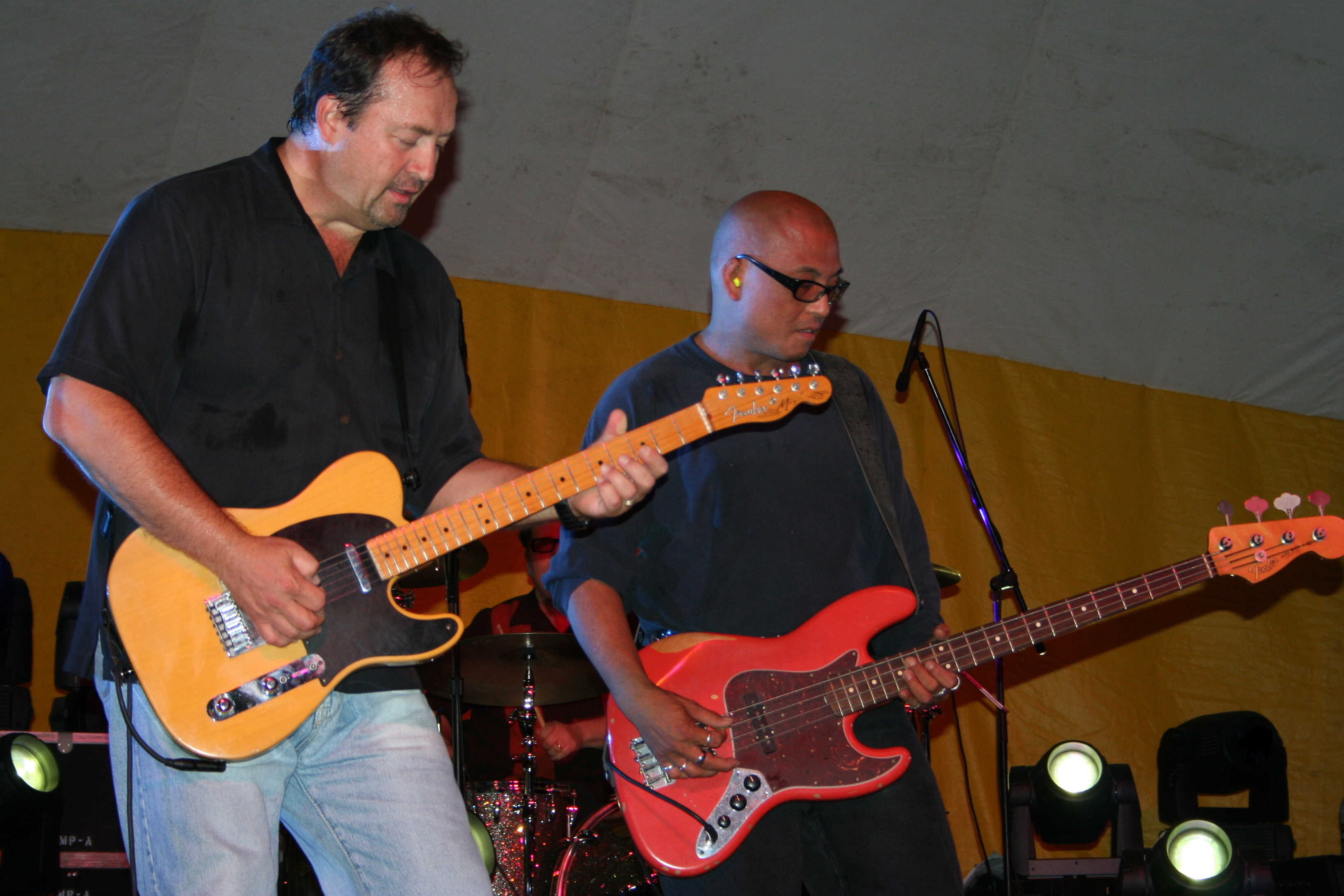 The Smithereens guitarists Jim Babjak (left) and Severo "the Thrilla" Jornacion (right) playing at an outdoor concert at the Mayo Civic Center in Rochester, Minnesota